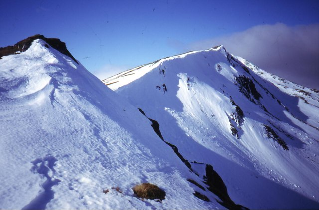 Tom a Choinich from the South East Ridge The view on a beatutiful March day, looking up the South East ridge of Tom a Choinich to the summit.